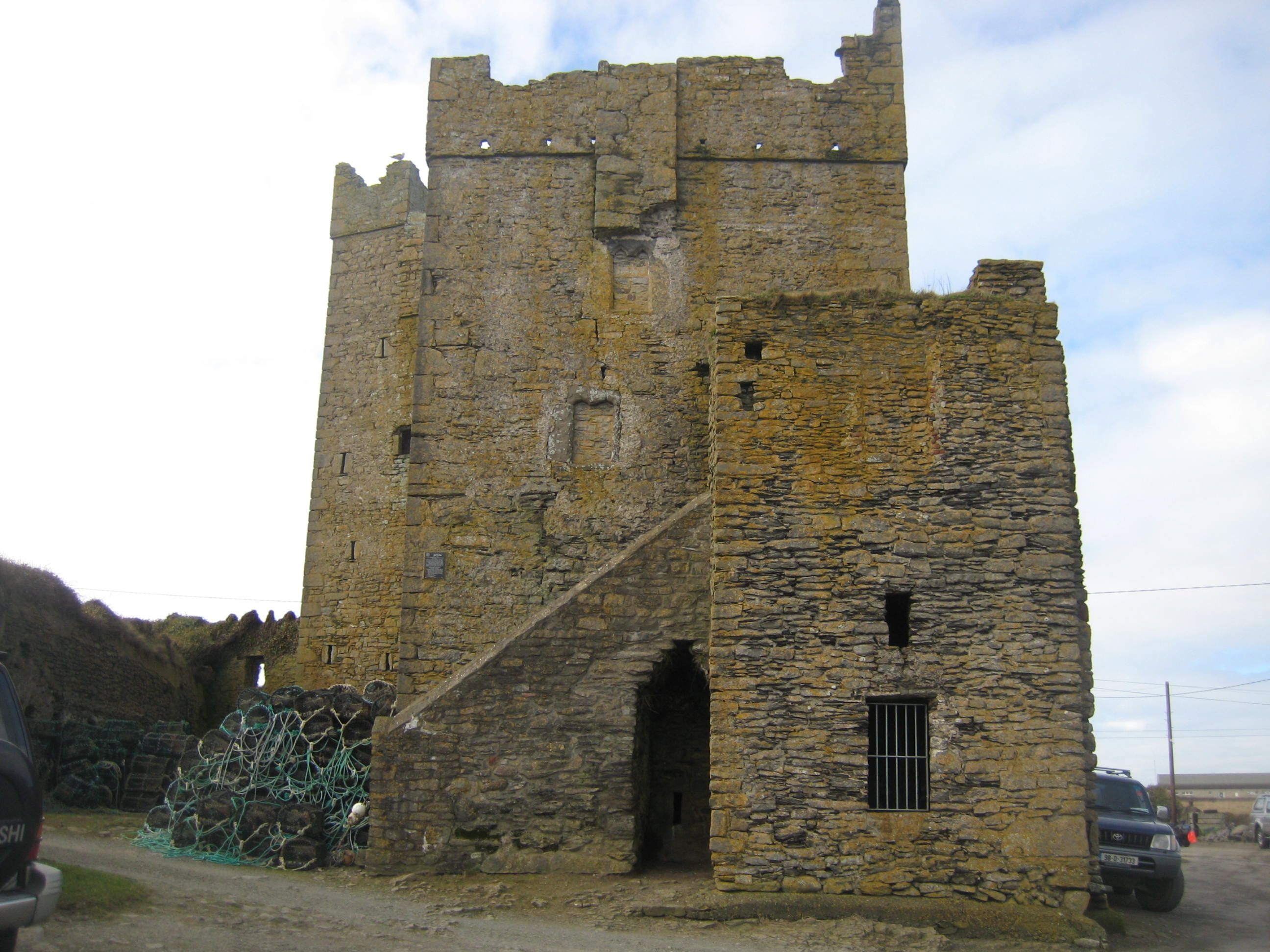 Taken after a dive at the Harbour